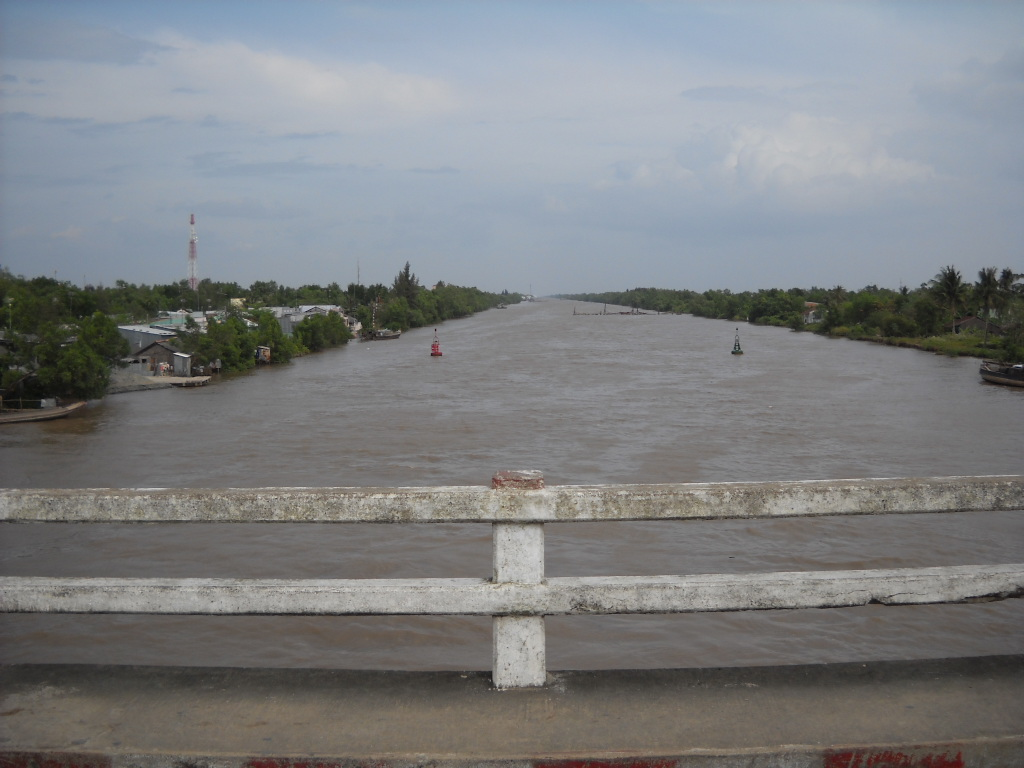 Bac Lieu - Ca Mau Canal, section running through Gia Rai